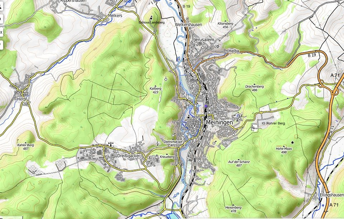 This map may be incomplete, and may contain errors. Don't rely solely on it for navigation.